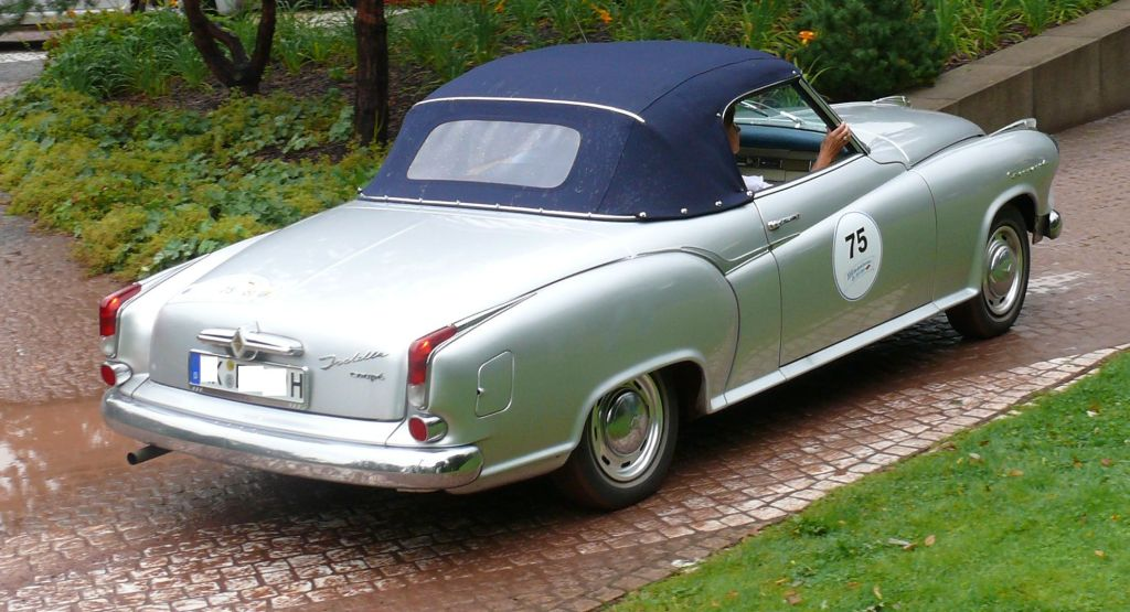 Borgward TS Coupé Cabriolet